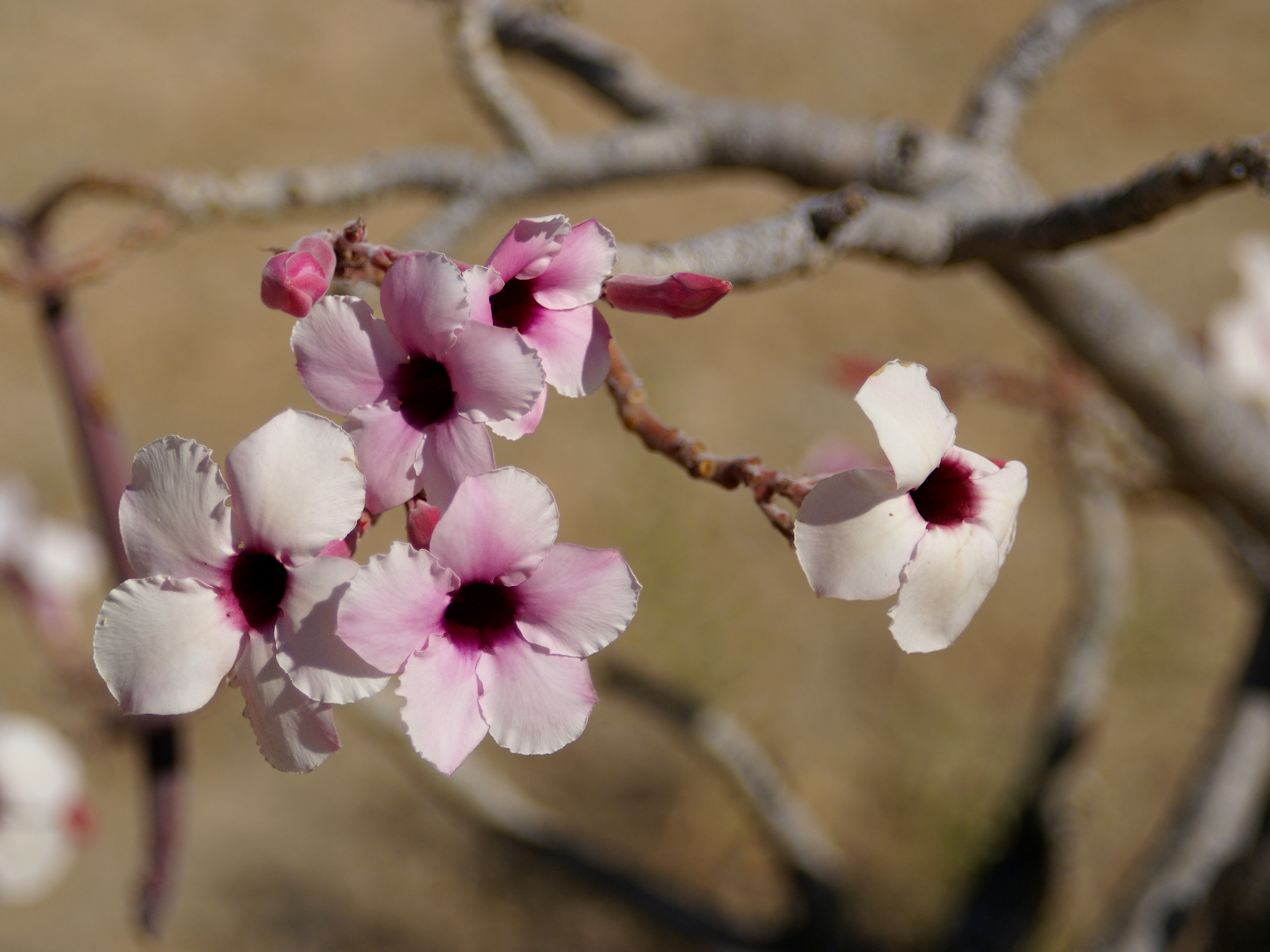 A Bushman Poison[1] succulent near the Kunene river, Namibia. It is endemic to Namibia and Angola, and flowers exclusively in the dry winter season. Previously considered synonymous with the Desert Rose, Adenium obesum.